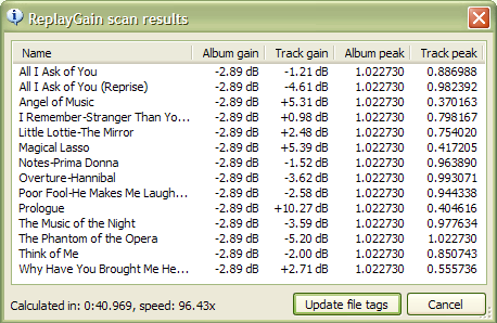 ReplayGain Scan Results of foobar2000 0.9